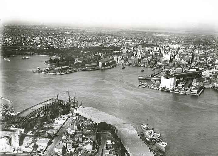 Sydney Harbour Bridge. Approaches from the air. Dated: Digital ID: 12685_a007_a00704_8728000154rr Rights: We'd love to hear from you if you use our photos. Many other photos in our collection are available to view and browse on our website using Photo Investigator.